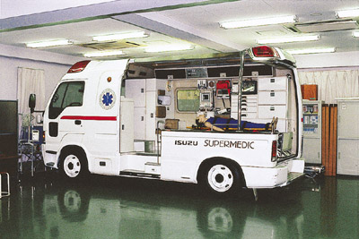 TOKAI IRYOU KOUGAKU SENMONGAKO, Aichi prefecture, Japan